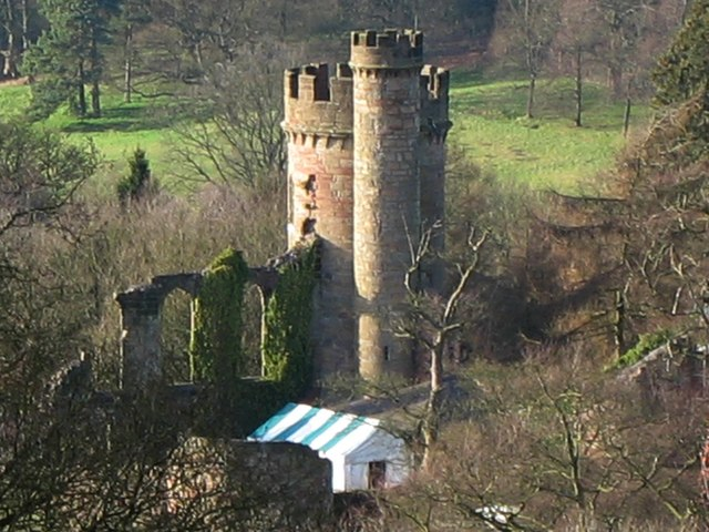 Hagley Castle in the grounds of Hagley Hall, on the flanks of the Clent Hills, built by Sanderson Miller for George, Lord Lyttleton in the middle of the 18th century. One of many such mock castles designed and built by Sanderson Miller.